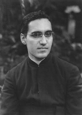 On May 24, 1941, a young Oscar Romero, studying for the priesthood in Rome, prayed to the Sacred Heart of Jesus to, "Burn off the slag and make me an iron, red hot with your love." (J. Delgado, "Romero, Un joven aspirante a la santidad" (Romero, a young aspirant to saintliness), ORIENTACIÓN, Vol. LV Nº 5463, March 25, 2007.)